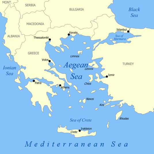 Map of the Aegean Sea cropped and modified to have an aspect ratio of 1, from the original work Image:Aegean Sea map.png (available under GFDL) by NormanEinstein.